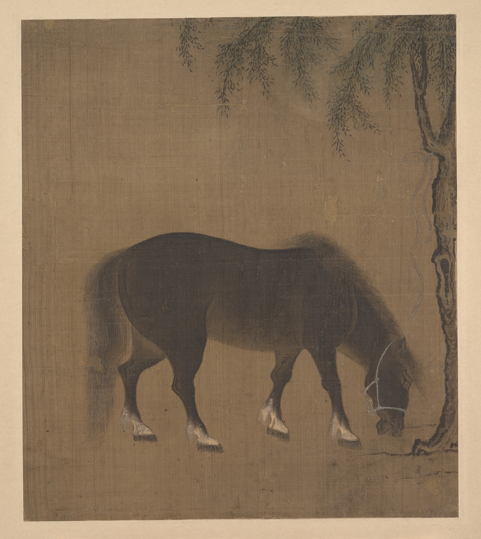 China; Album leaf; Paintings